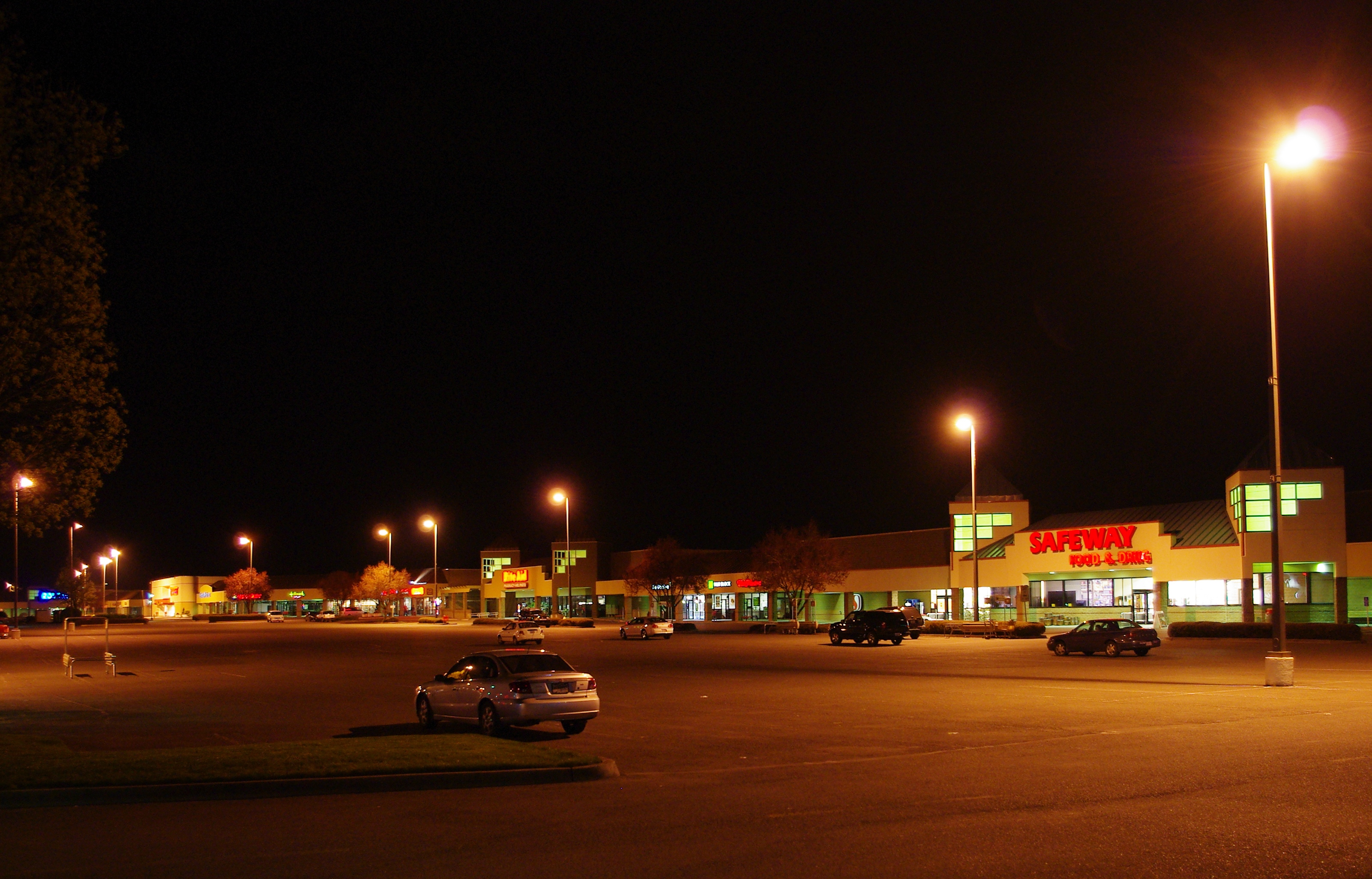 The Sunset Esplanade in Hillsboro, Oregon.